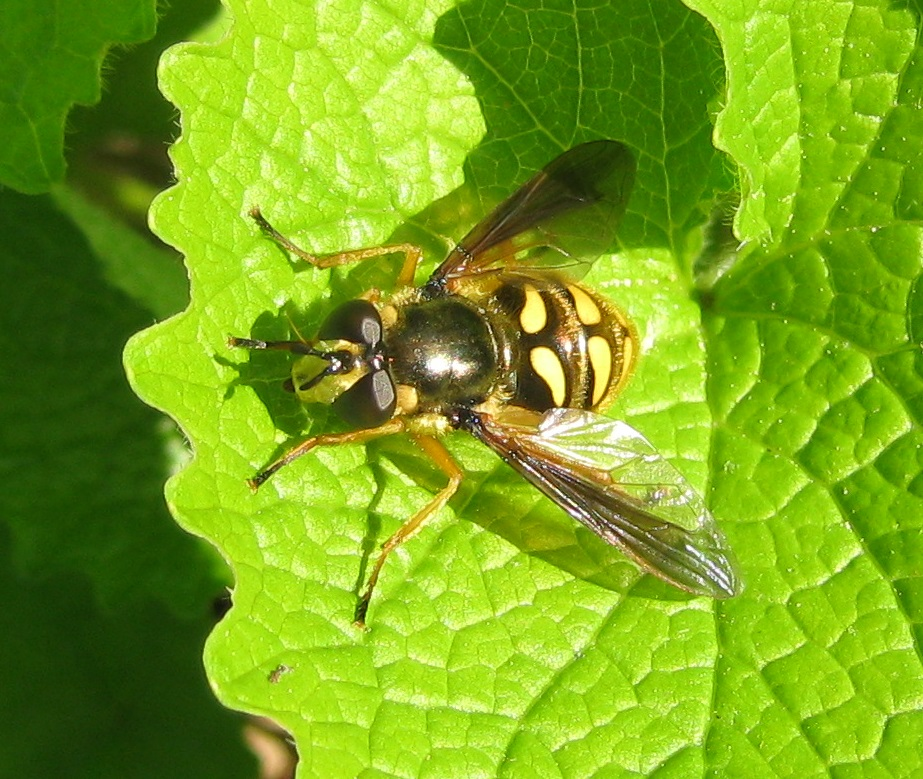 Syrphid fly, Somula decora, on garlic mustard. Pennypack Restoration Trust, Montgomery County, Pennsylvania, USA.